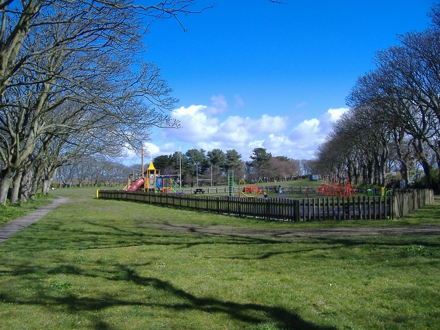 Poulsom park, Castletown Well-equipped children's playground in the park.